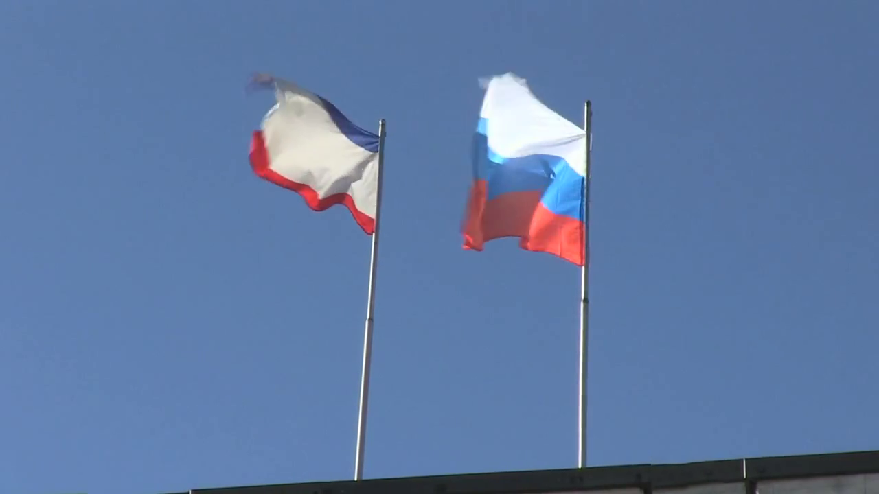 On The Scene: VOA's Elizabeth Arrott in Simferopol, Crimea (E Arrott/VOA). Still image from video, showing Crimean and Russian flags flying over Supreme Council building (at 01:47)